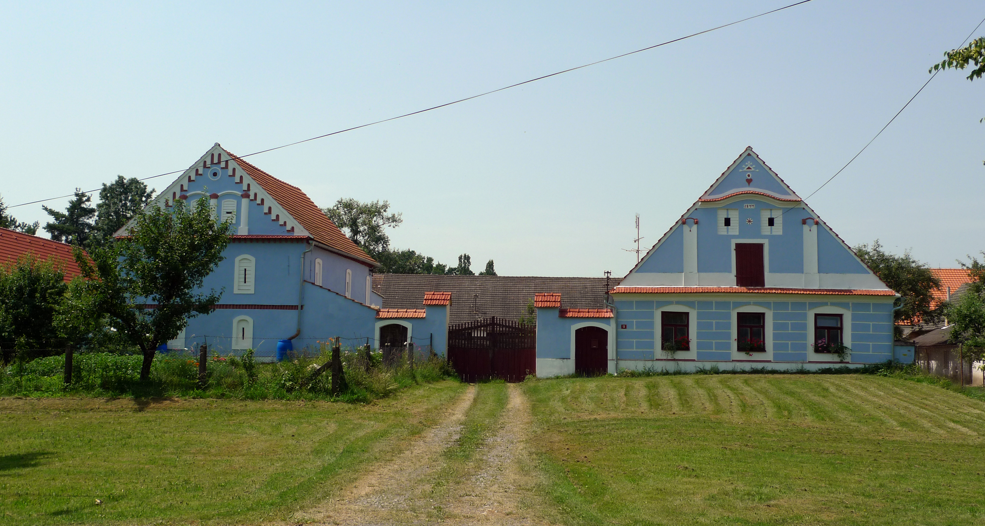 Sviny Village near to Veselí nad Lužnicí, Tábor District, Czech Republic.